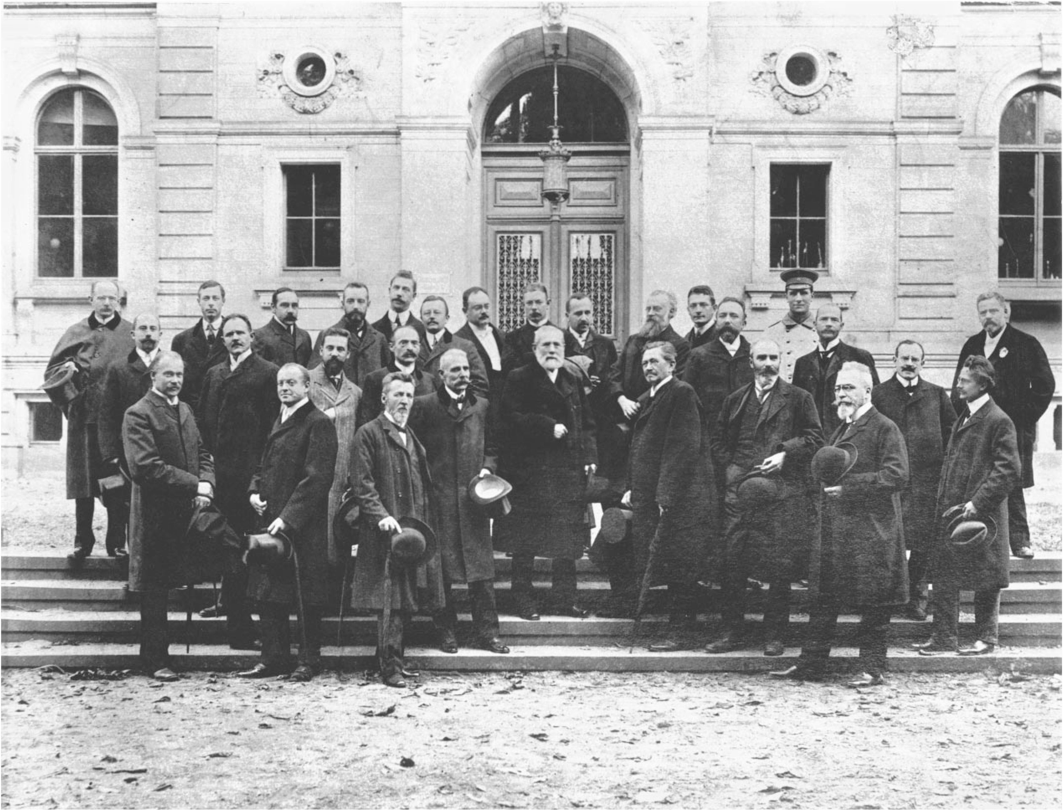 Photograph of pharmacologists in front of Department of Pharmcology, Strassburg, on the occasion of Oswald Schmiedeberg's 100th birthday, 1908